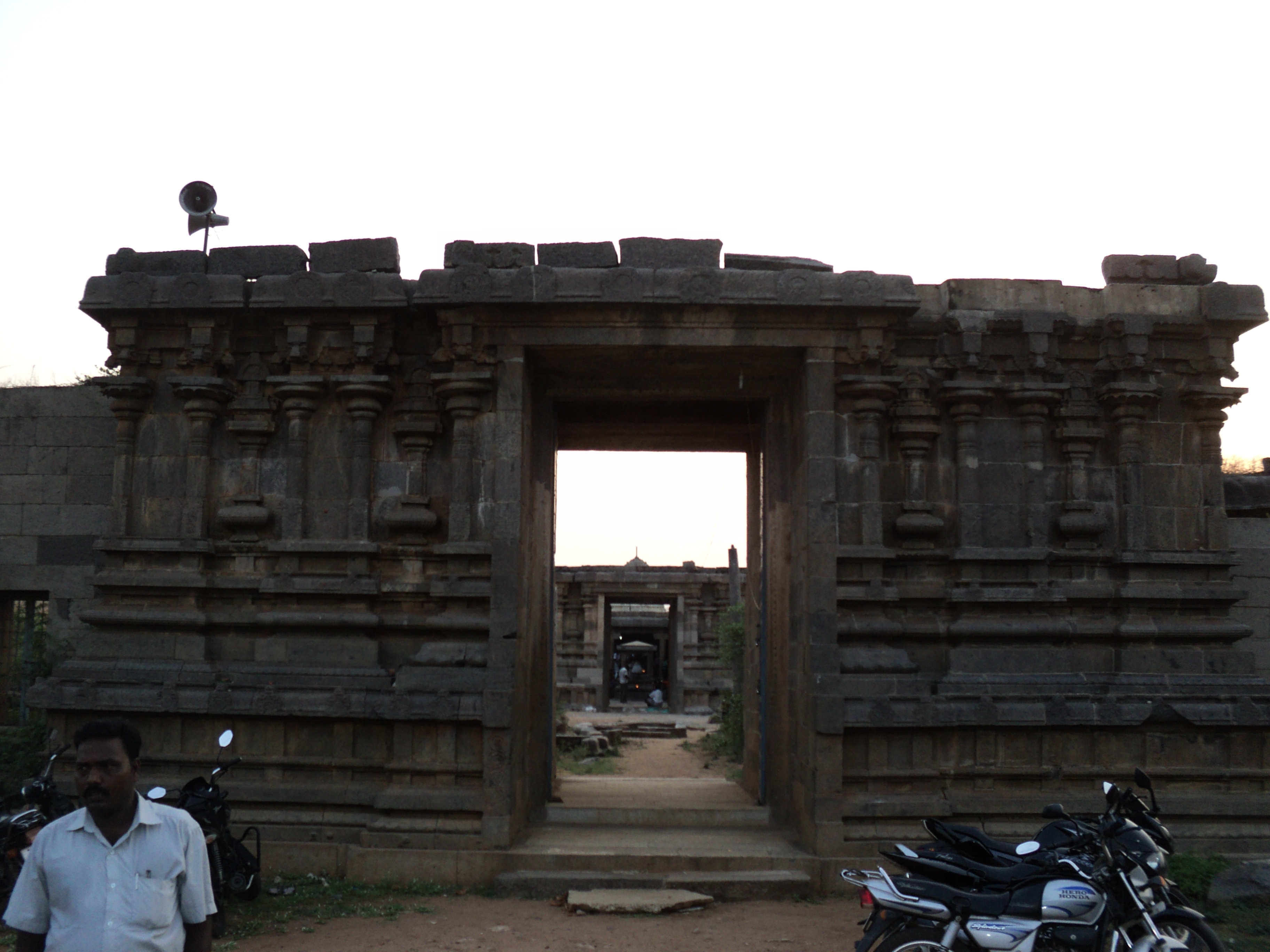 12th Century Temple